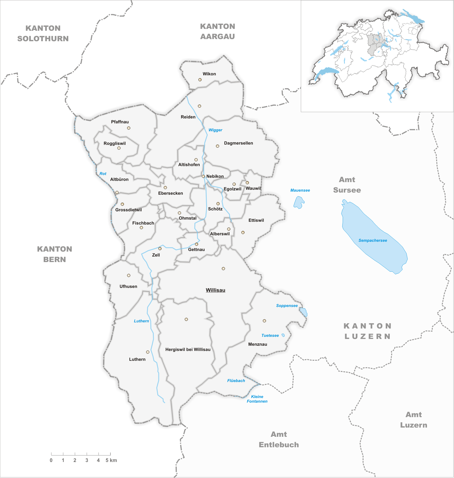 Municipality in the District of Willisau Artist: Tschubby